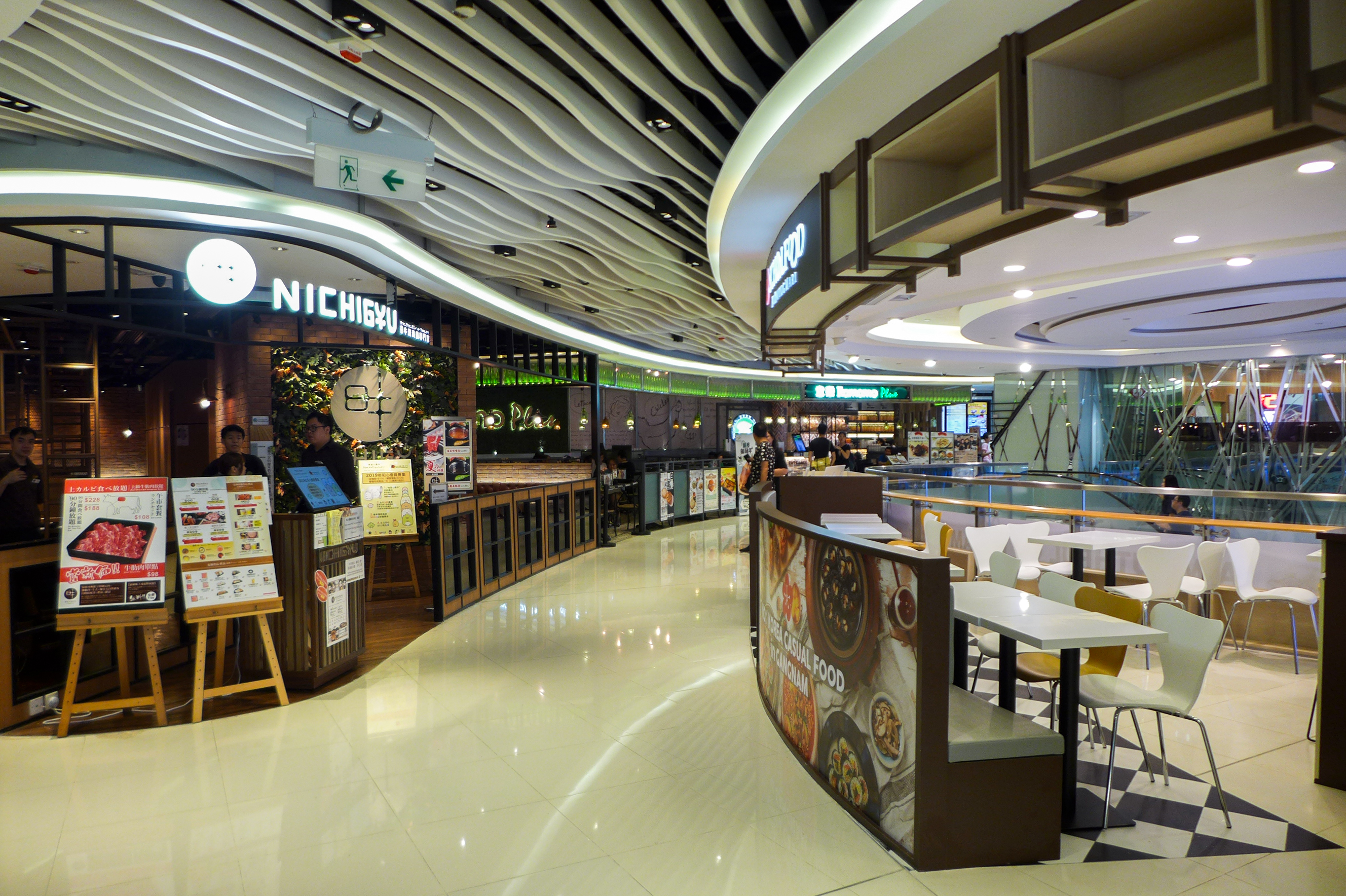 MCP Phase 2 Atrium